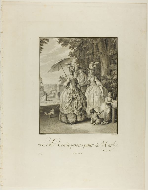 Le Rendez-vous pour Marly, nach Jean Michel Moreau dem Jüngeren (French, 1741-1814) Engraving on paper 267 x 217 mm (image); 410 x 321 mm (plate); 527 x 411 mm (sheet, folded)